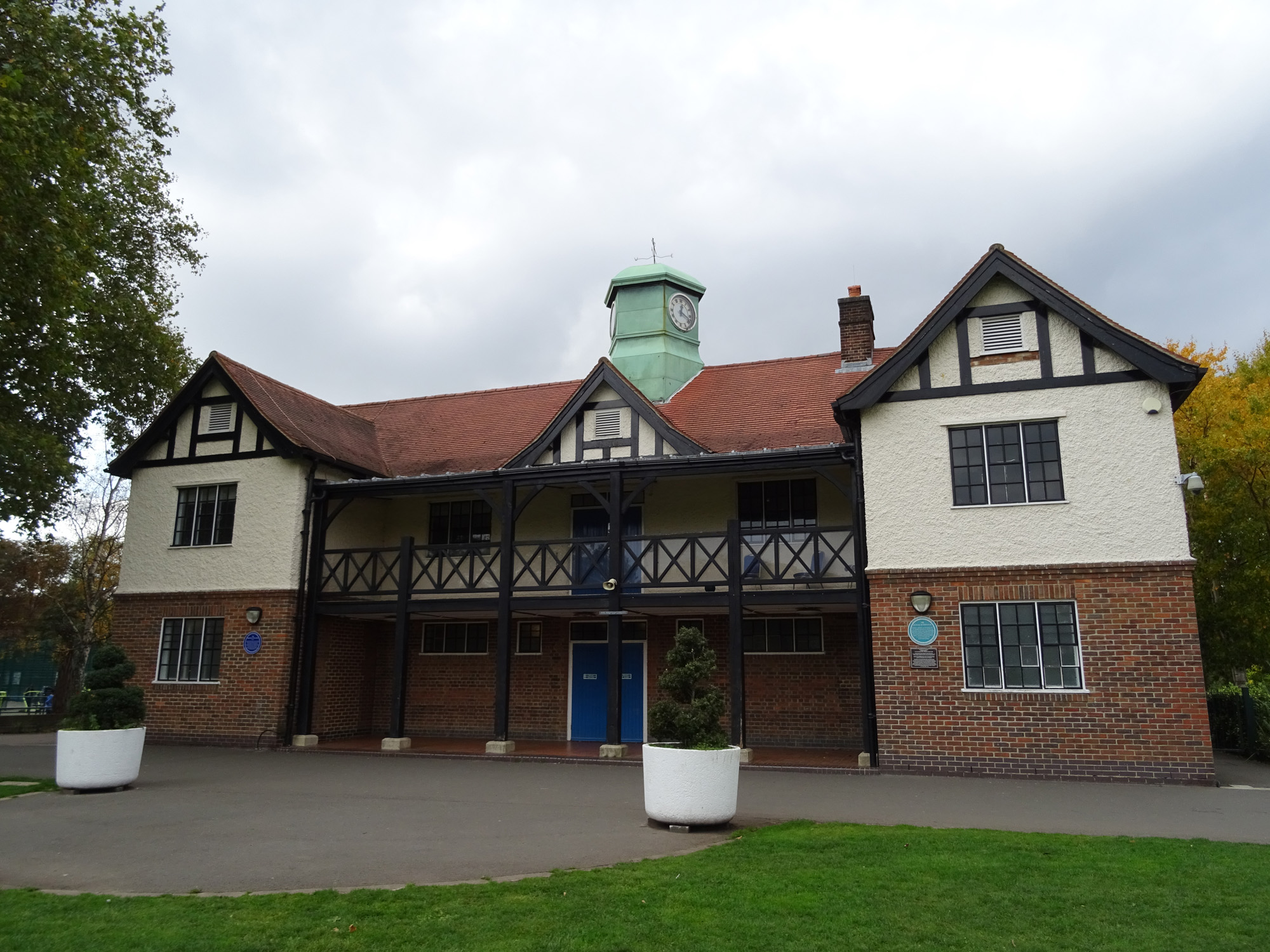 Sir Roger Bannister while a medical student at St. Mary’s Hospital Medical School from 1951-54, trained on the cinder track on this site in preparation for the first under 4 minute mile run in Oxford on 6th May 1954.